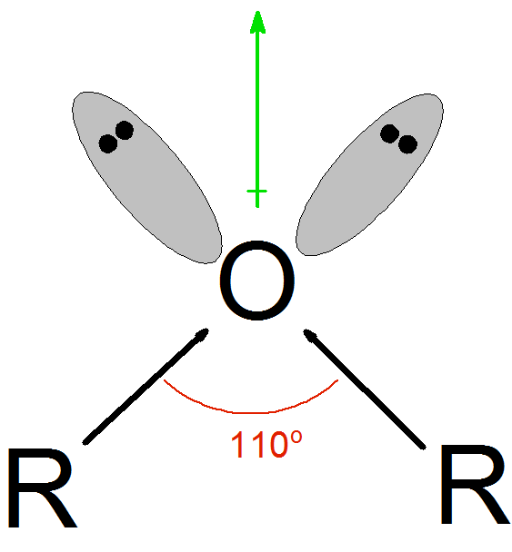 Ether structure